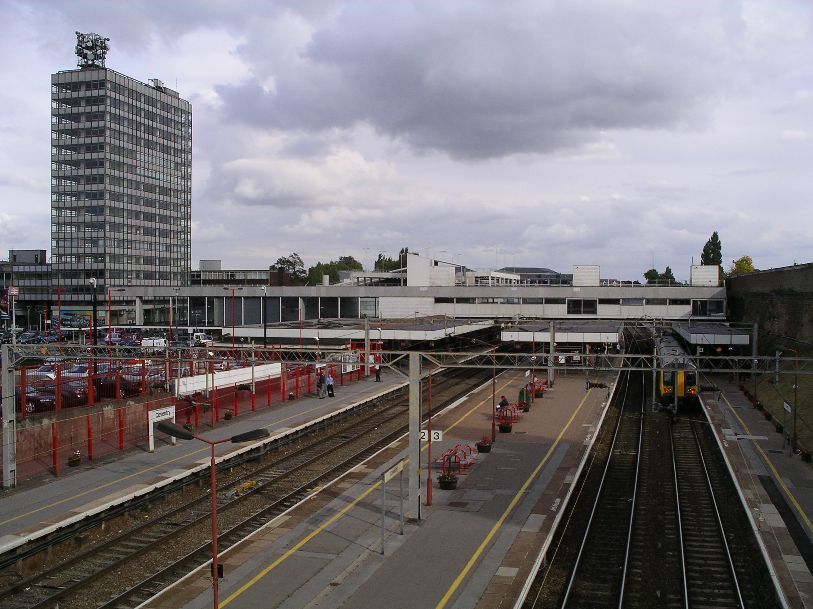 Photo of Coventry Railway Station, Coventry, England. Photo taken from the railway bridge on Warwick Road.